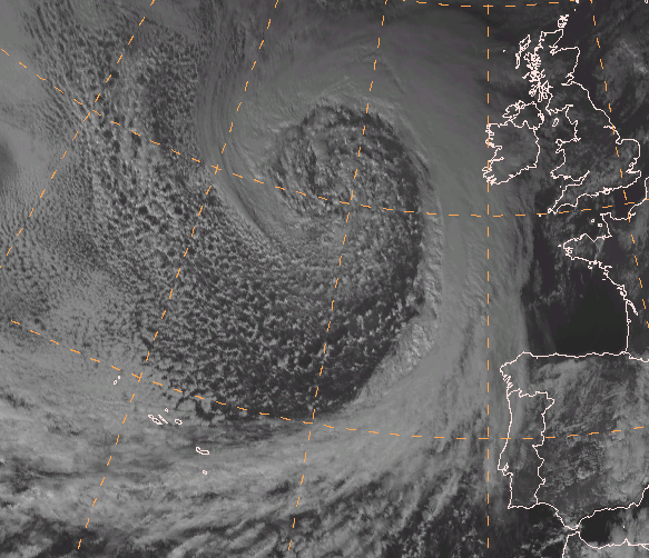 Satellite Image of Oceanic hurricane-force storm. This is a screenshot from a U. S. Government, U. S. National Weather Service, workstation. Imagery is supplied by NESDIS.